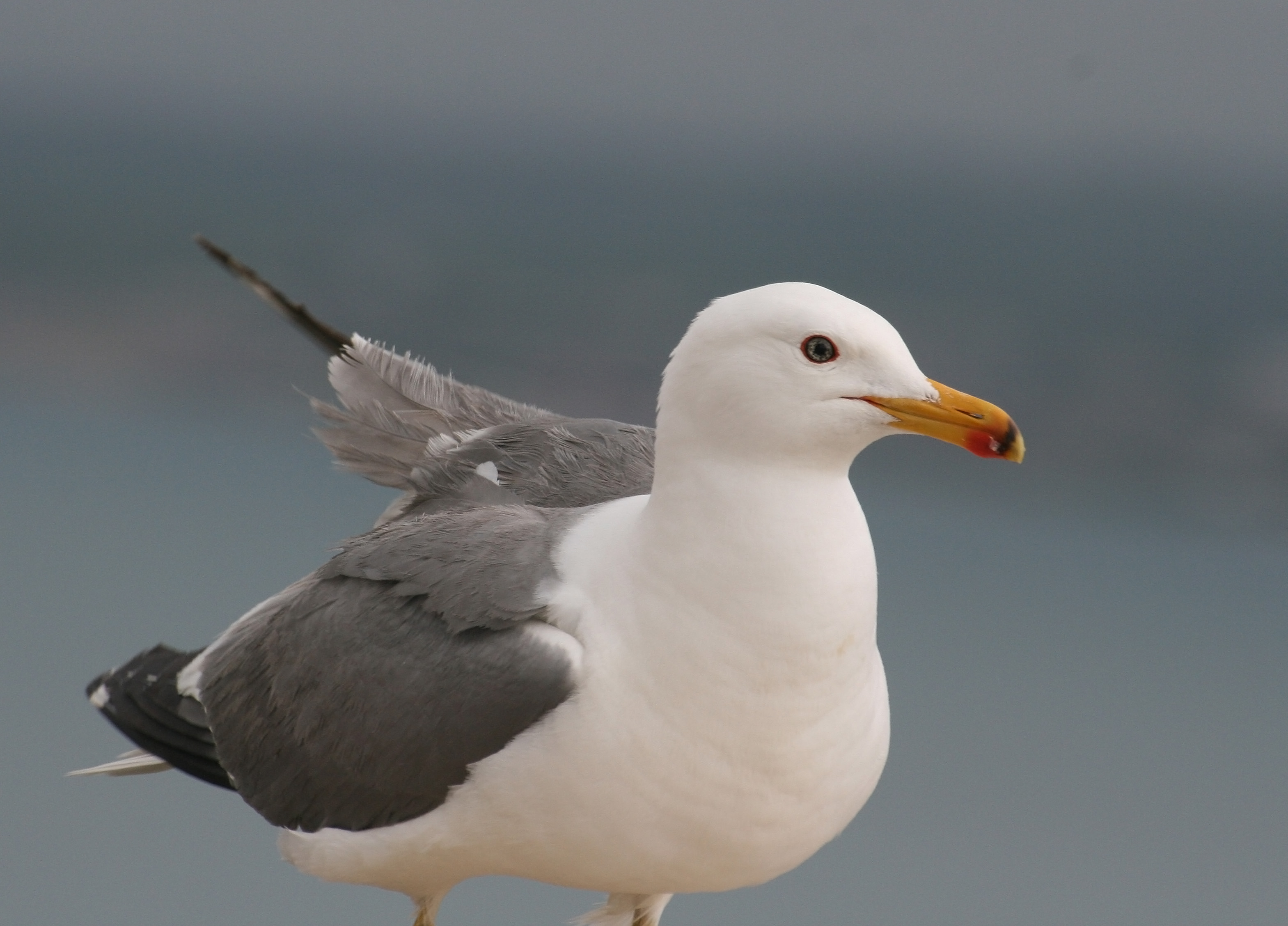 Armenian Gull standing at Sevan Lake